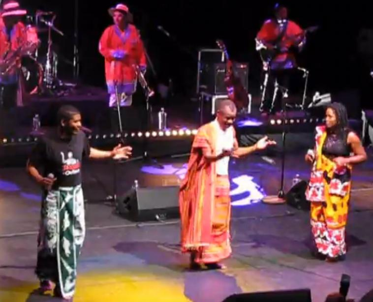 Jaojoby, the king of salegy (a contemporary musical style popular in Madagascar) performs in concert at the Olympia in Paris. Lemurbaby (talk) 06:34, 6 November 2010 (UTC)